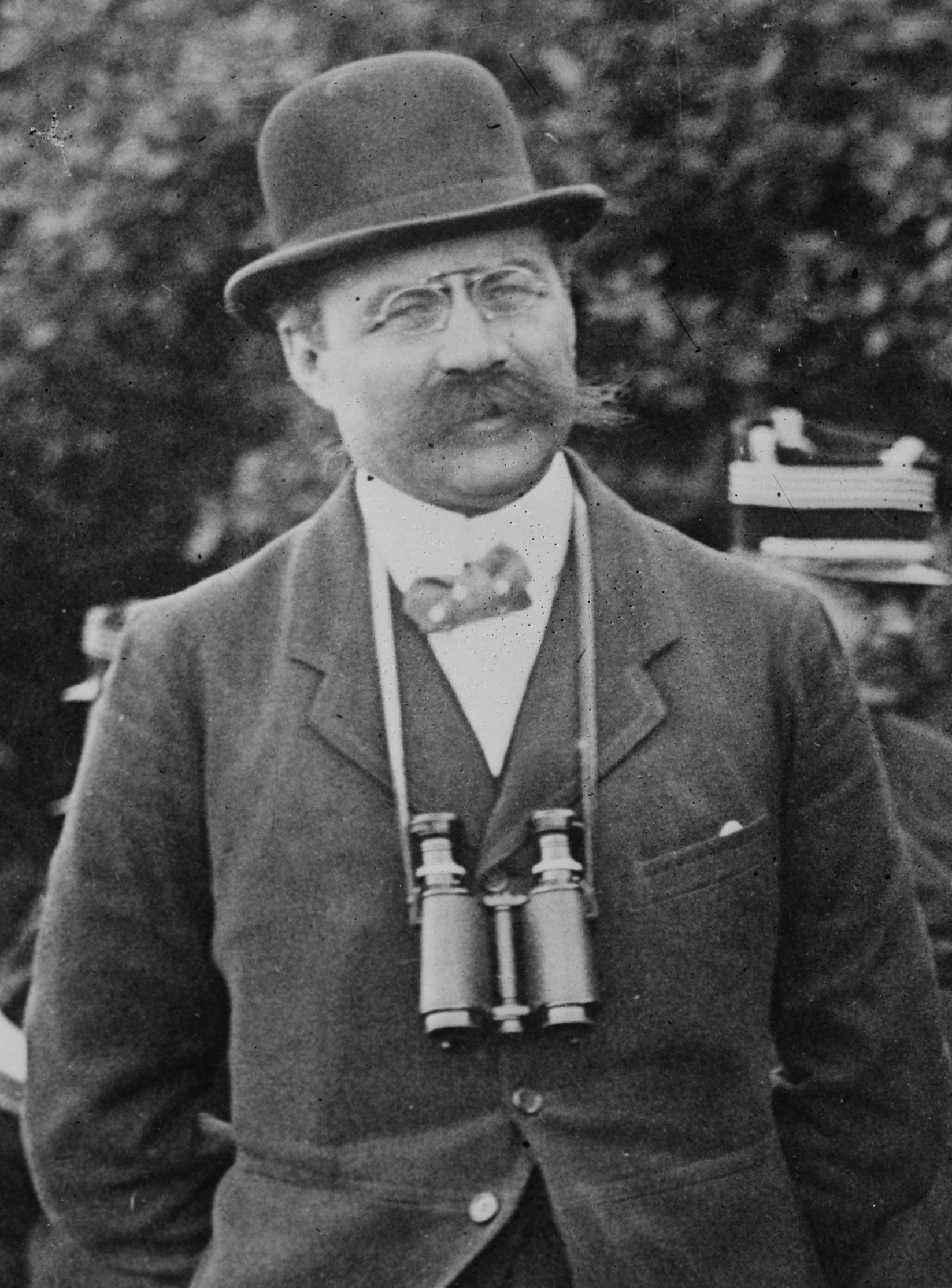 French politician Adolphe Messimy (1869-1935) during World War I